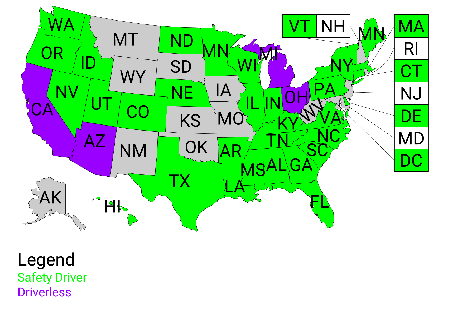 Map of the US showing US self-driving car laws